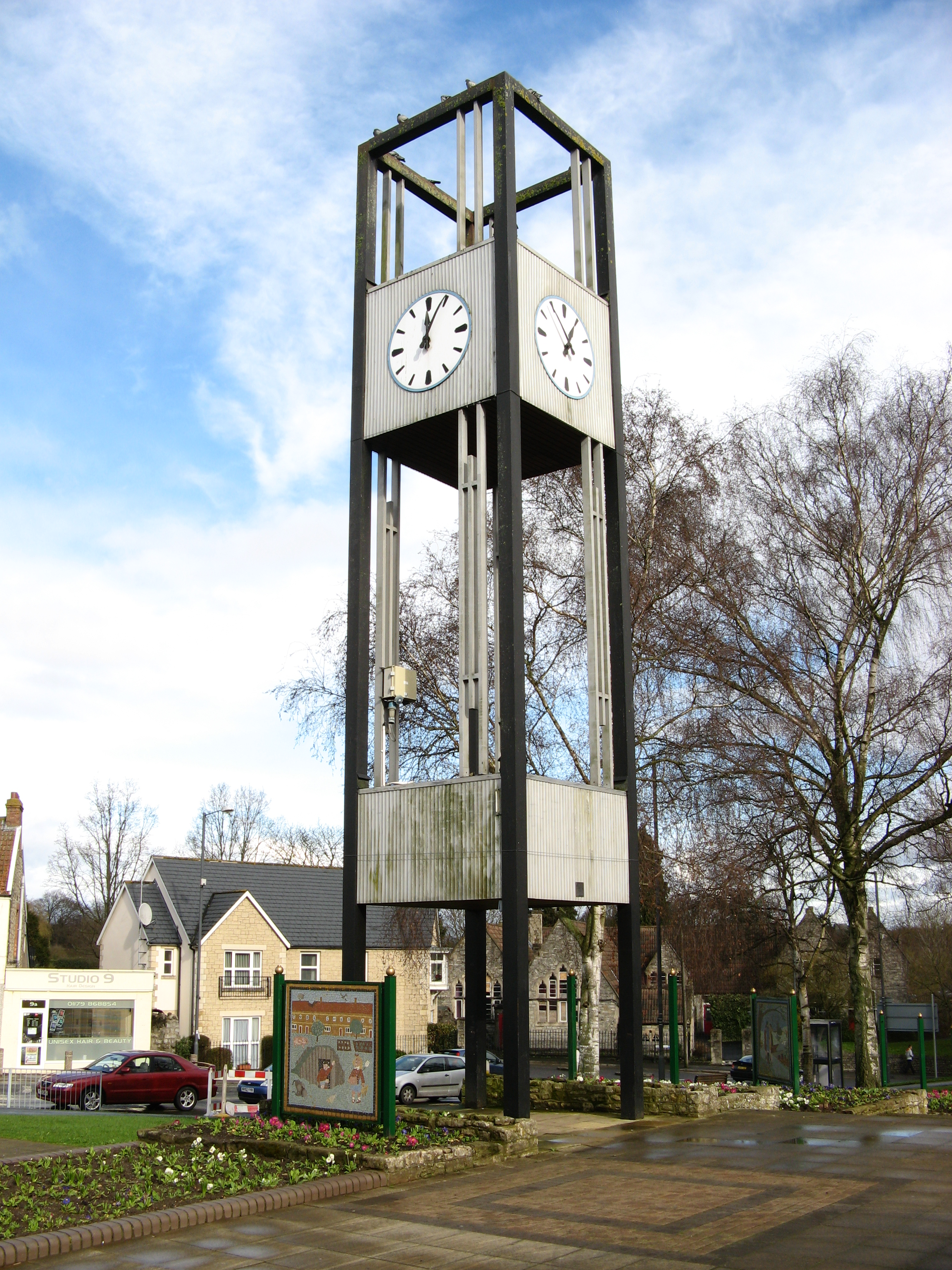 Clock Tower in Keynsham, England. The Town Hall, Library, and Clock Tower were built in the mid 1960s.[1]